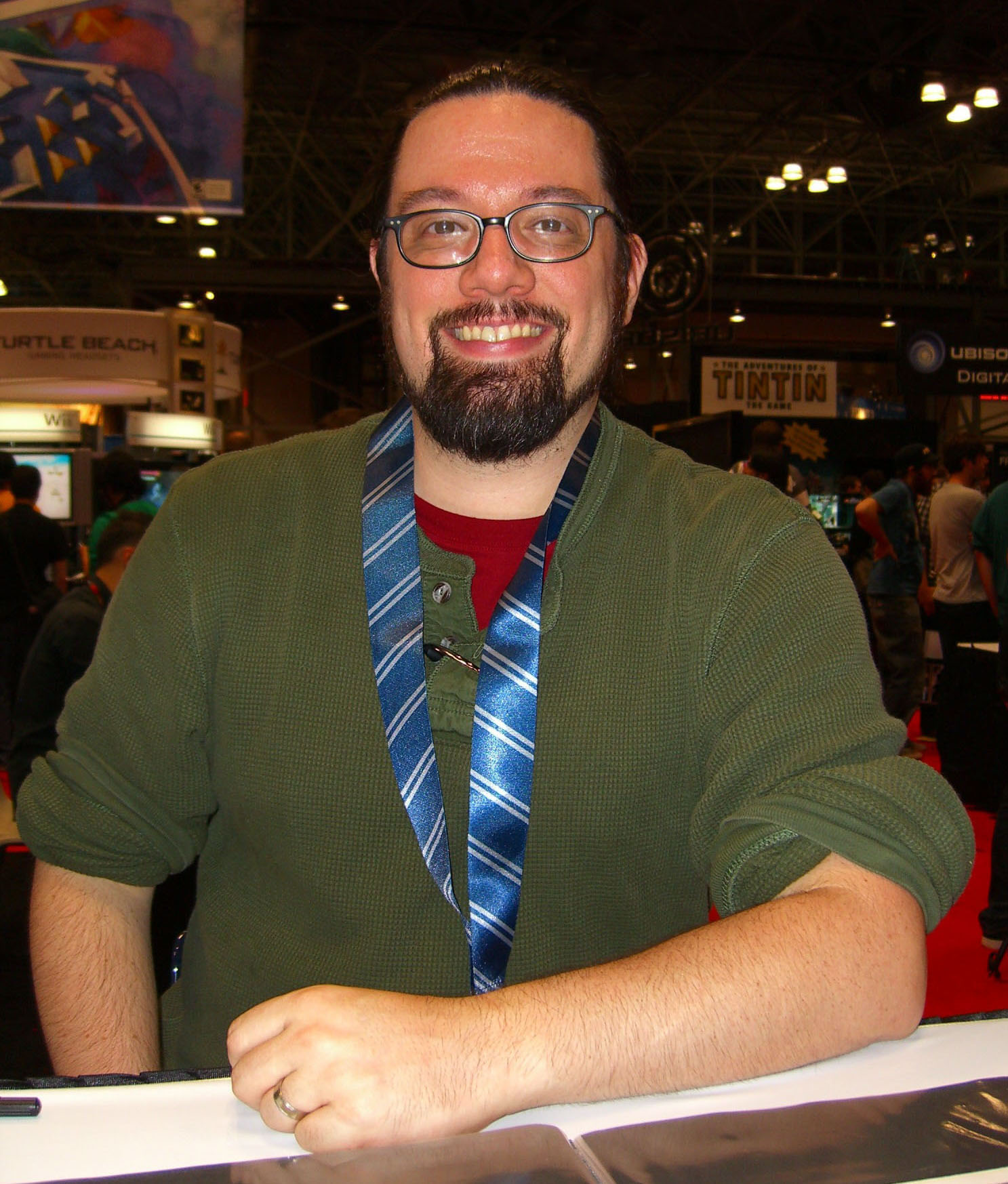 Comics creator David E. Peterson at the 2011 New York Comic Con, Friday, October 14, 2011. This photo was created by Luigi Novi. It is not in the public domain, and use of this file outside of the licensing terms is a copyright violation.